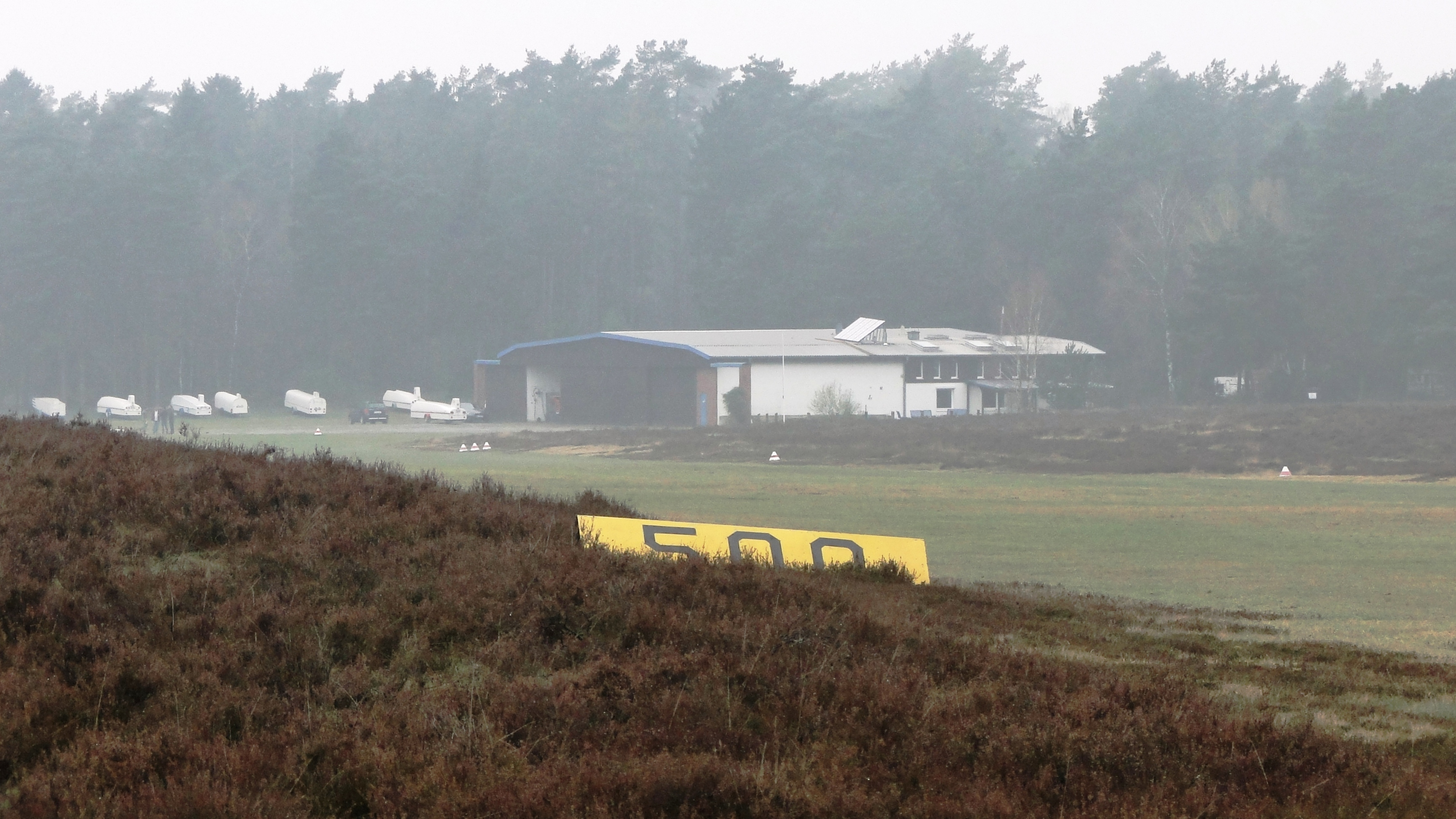 Hangar at Airfield Höpen with gliders near Schneverdingen in the fog